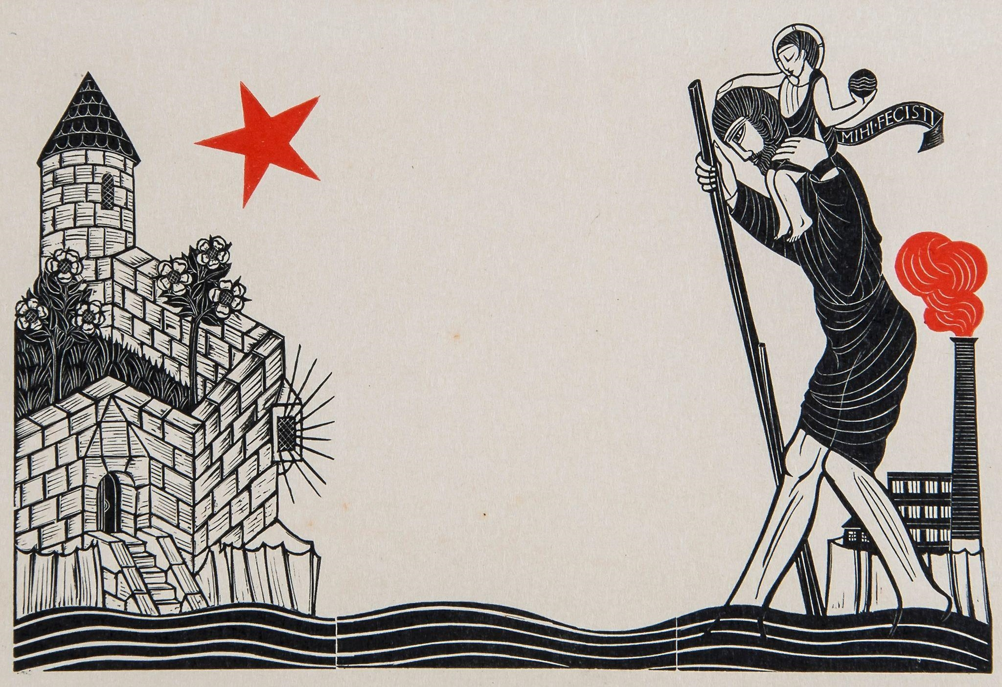 Wood engraving of Eric Gill's design fo the Daily Herald's 'Order of Industrial Heroism' certificate.